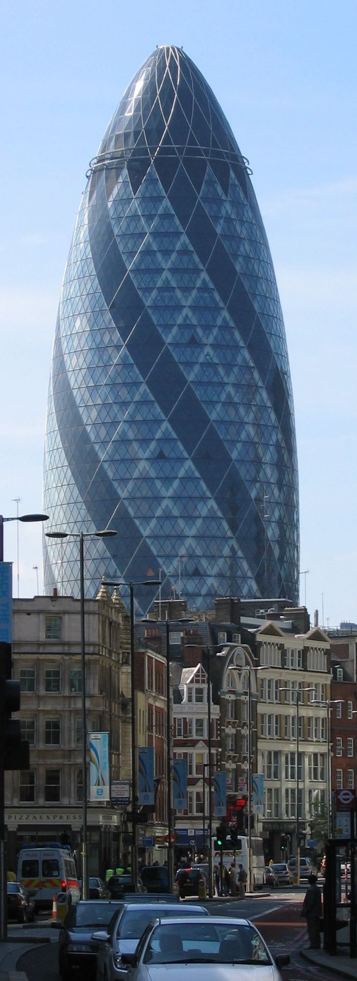 Swiss Re Headquarters in London, viewed from near Liverpool Street Station.